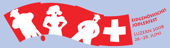 Logo